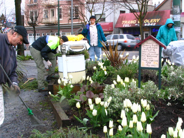 Community volunteer gardening event Kingsway, East Vancouver, Canada April 2005 Picture taken by Martin Mullan